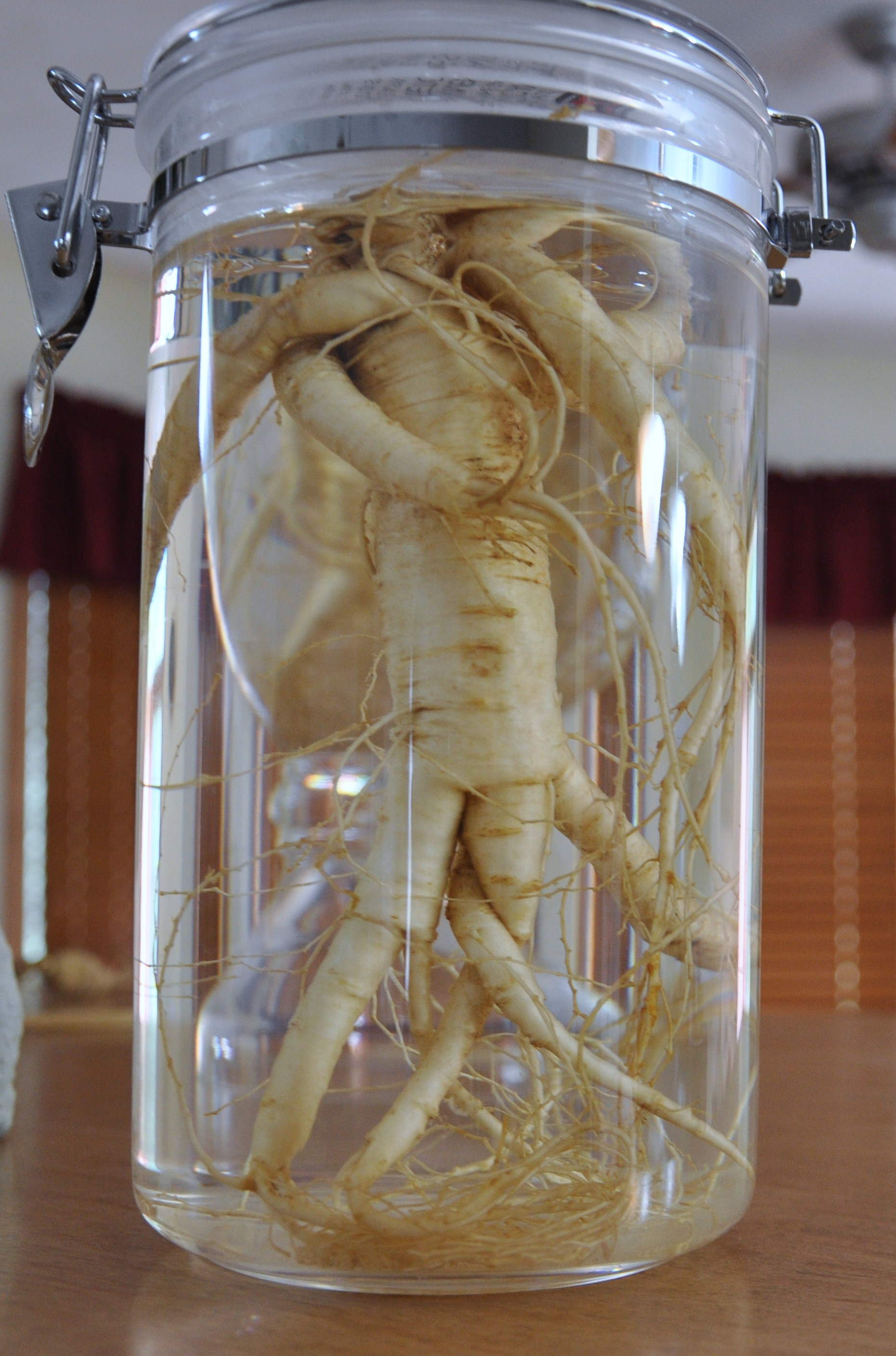 American ginseng in human figure. Cultivated in Marathon Ginseng Gardens